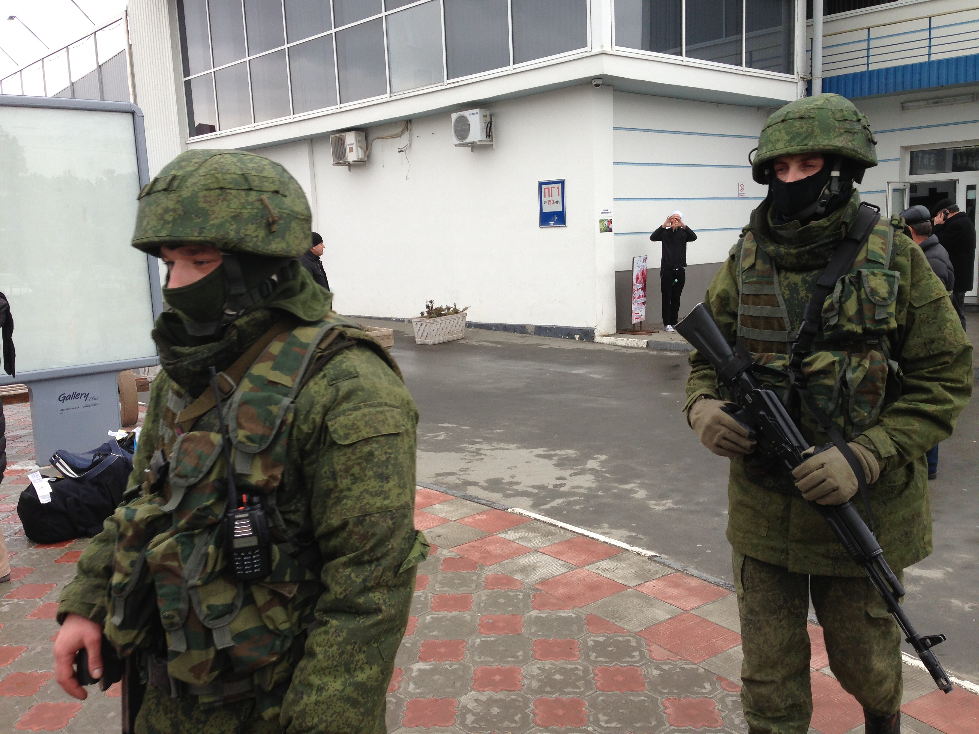 Unidentified gunmen on patrol at Simferopol Airport in Ukraine's Crimea peninsula. The AK-74 carried by the rifleman on the right does not have a magazine inserted.